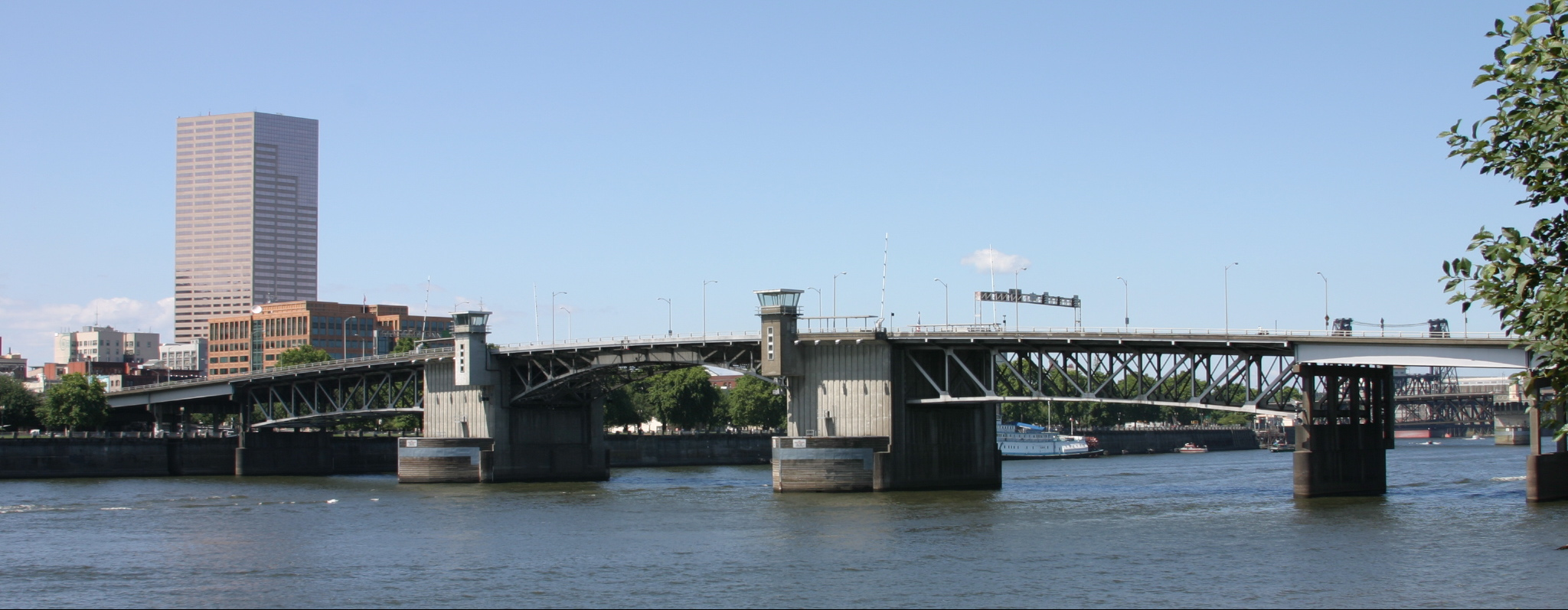 The Morrison Bridge in Portland, Oregon. Viewed from the southeast on the Eastbank Esplanade.